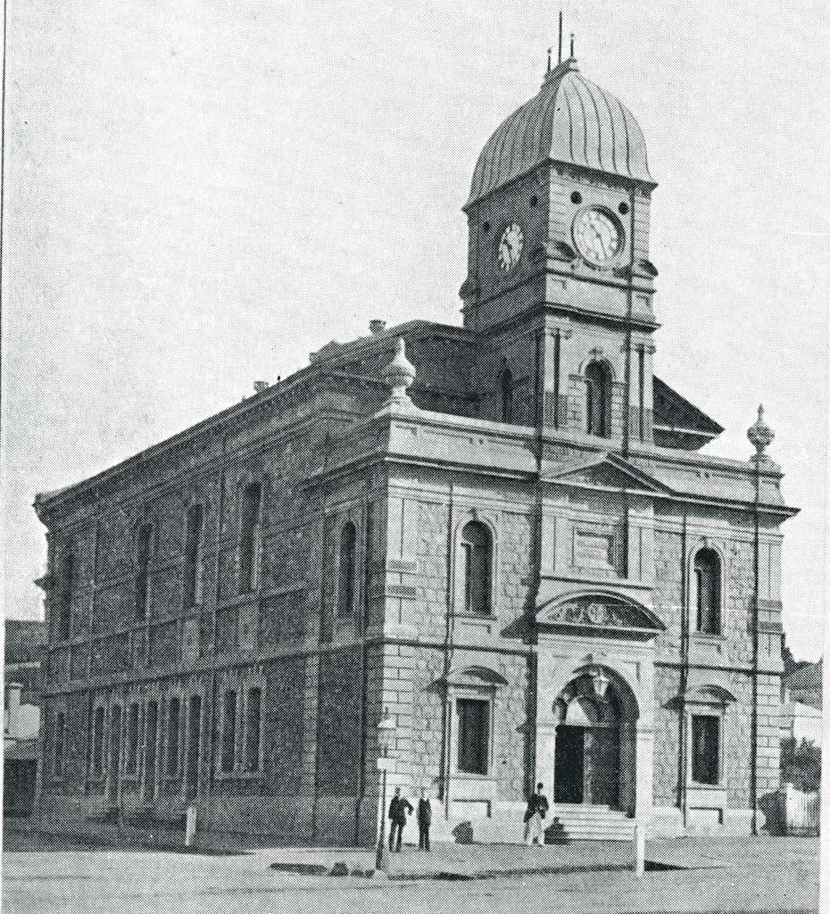 Albany Town Hall from Alluring Albany - published in materials by Albany Advertiser between 1910 and 1927, original photograph likely to be before 1905 from appearance of dress of men in photograph